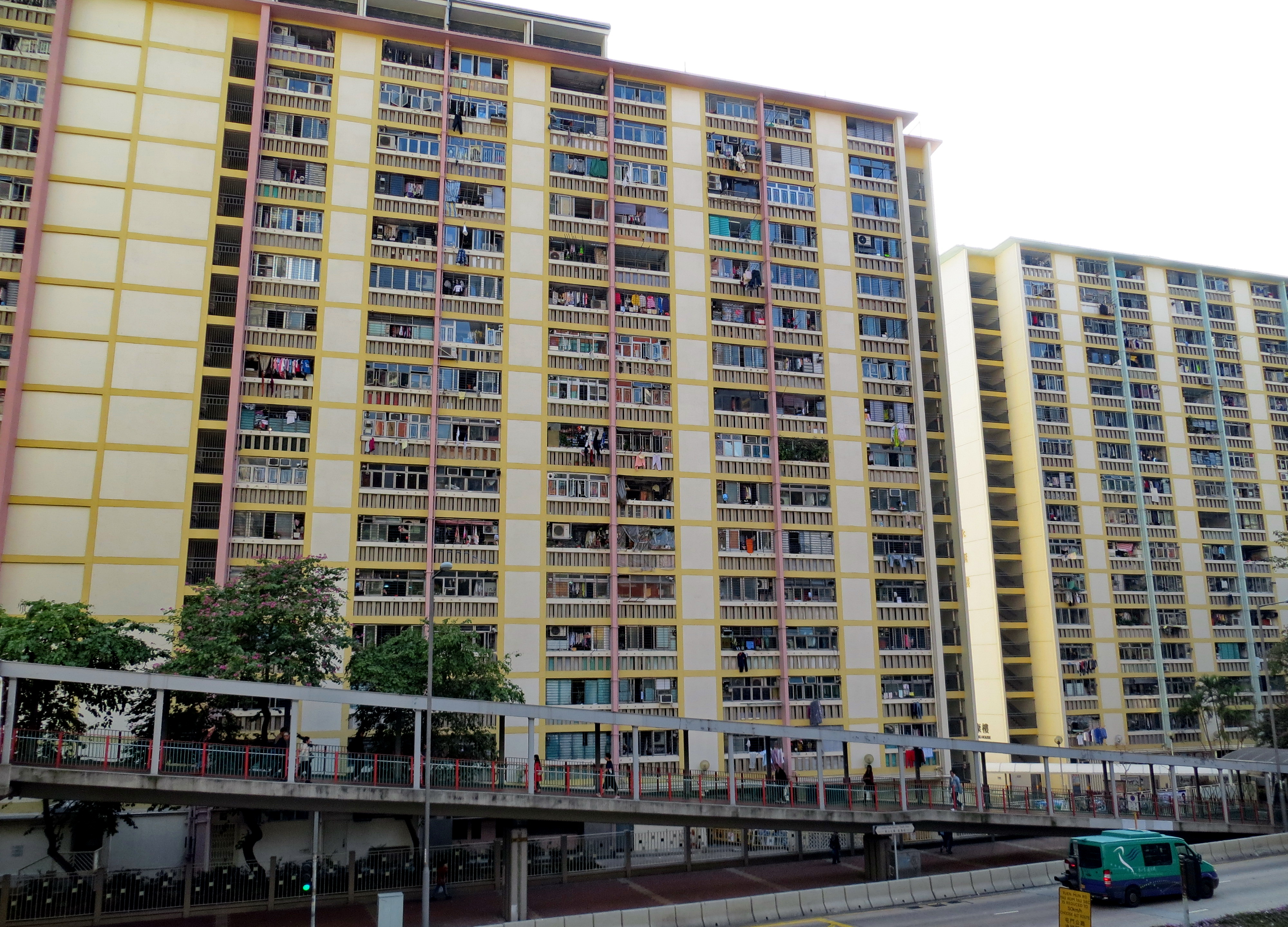 Fuk Loi Estate, Wing Lok House, Tsuen Wan, Hong Kong.